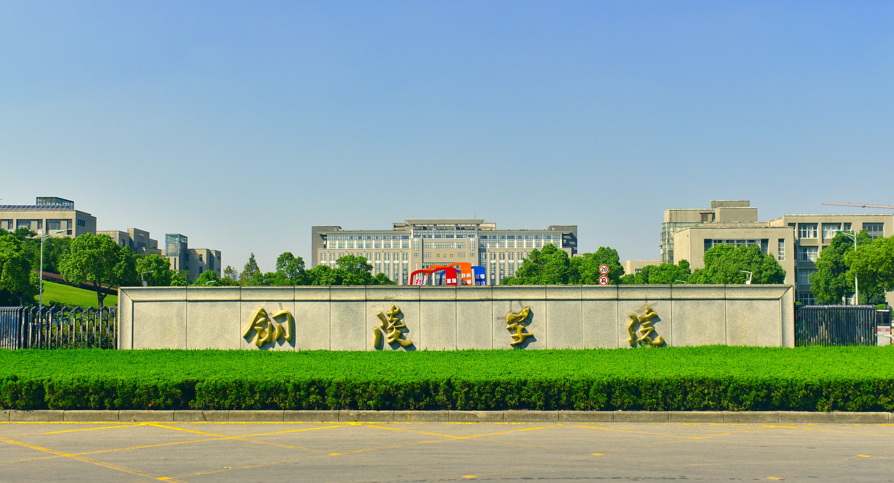 Front gate of the university